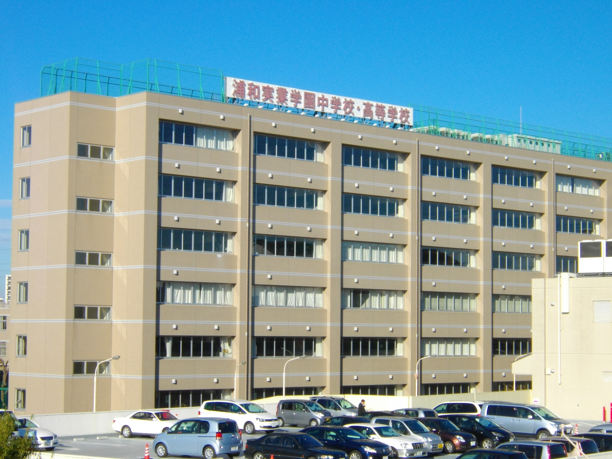 Urawa Jitsugyo Gakuen Junior & Senior High School